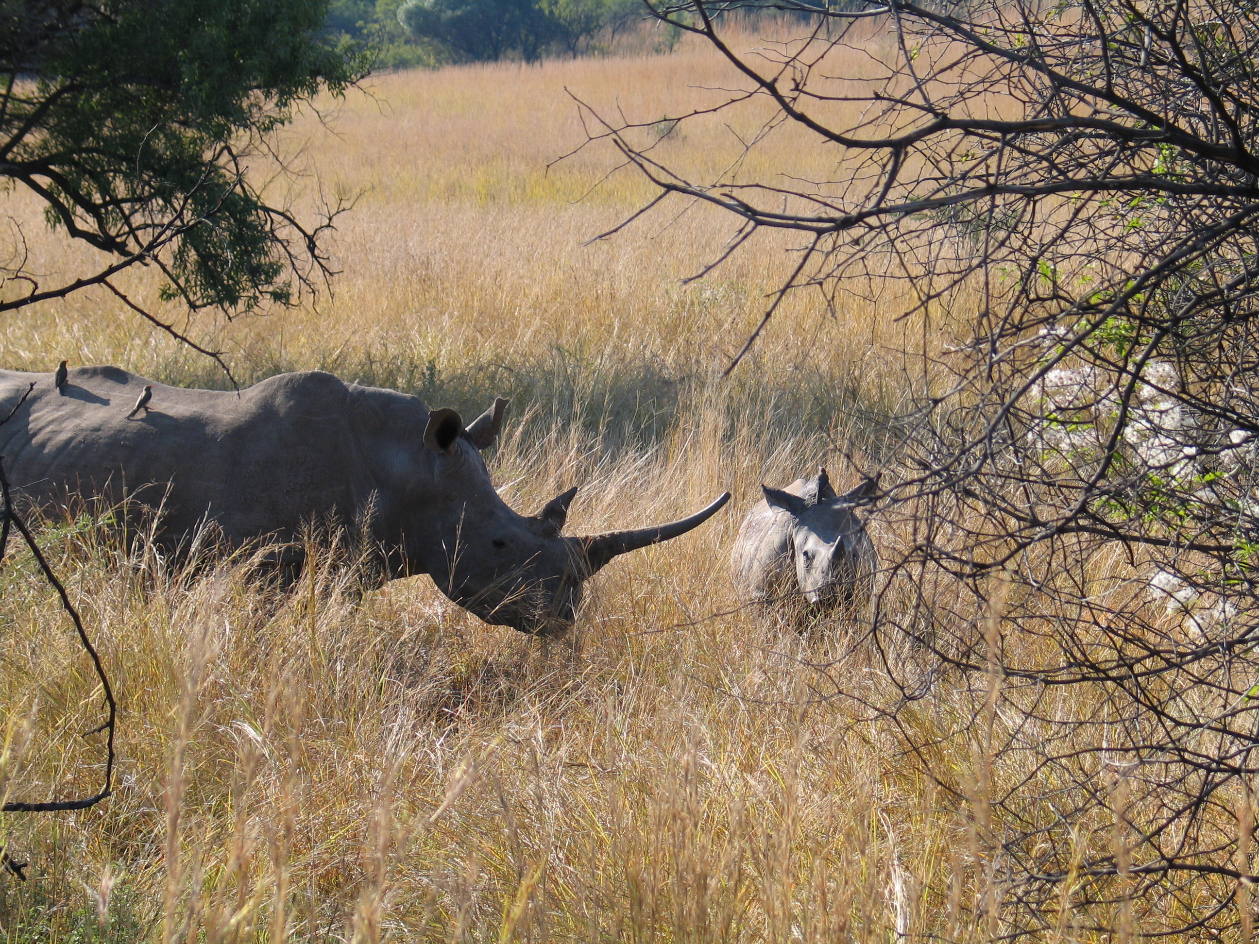 White rhino cow and calf at Pilanesberg Game Reserve, North West Province, South Africa Included species: C. simum, B. erythrorynchus, H. hirta & C. dactylon, C. brachiata